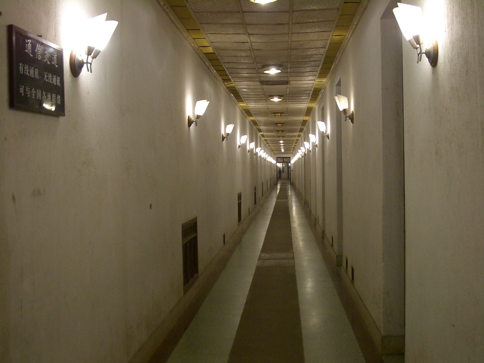 One of the tunnels of the Project 131 tunnel complex